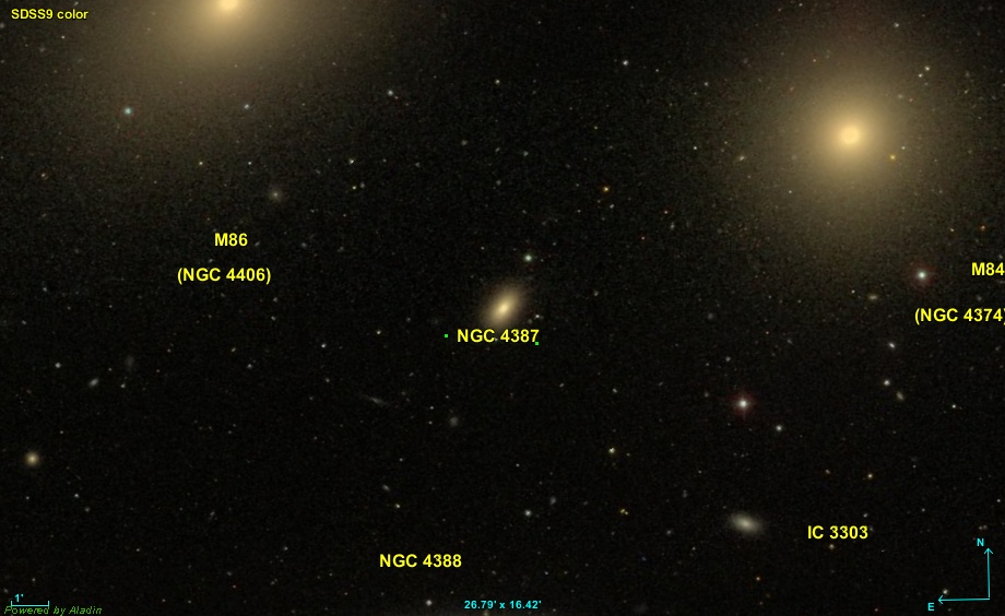 Image created using the Aladin Sky Atlas software from the Strasbourg Astronomical Data Center and SDSS (Sloan Digital Sky Survey) public data.